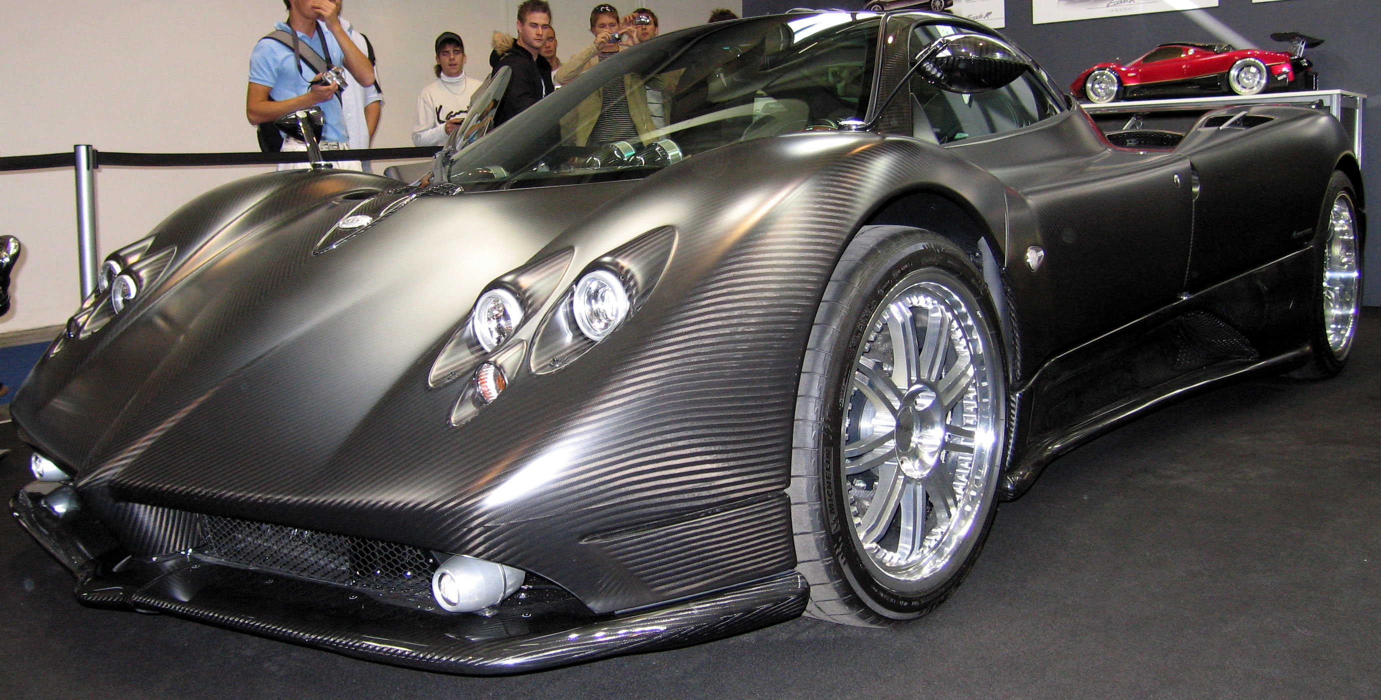 Pagani Zonda F Carbon